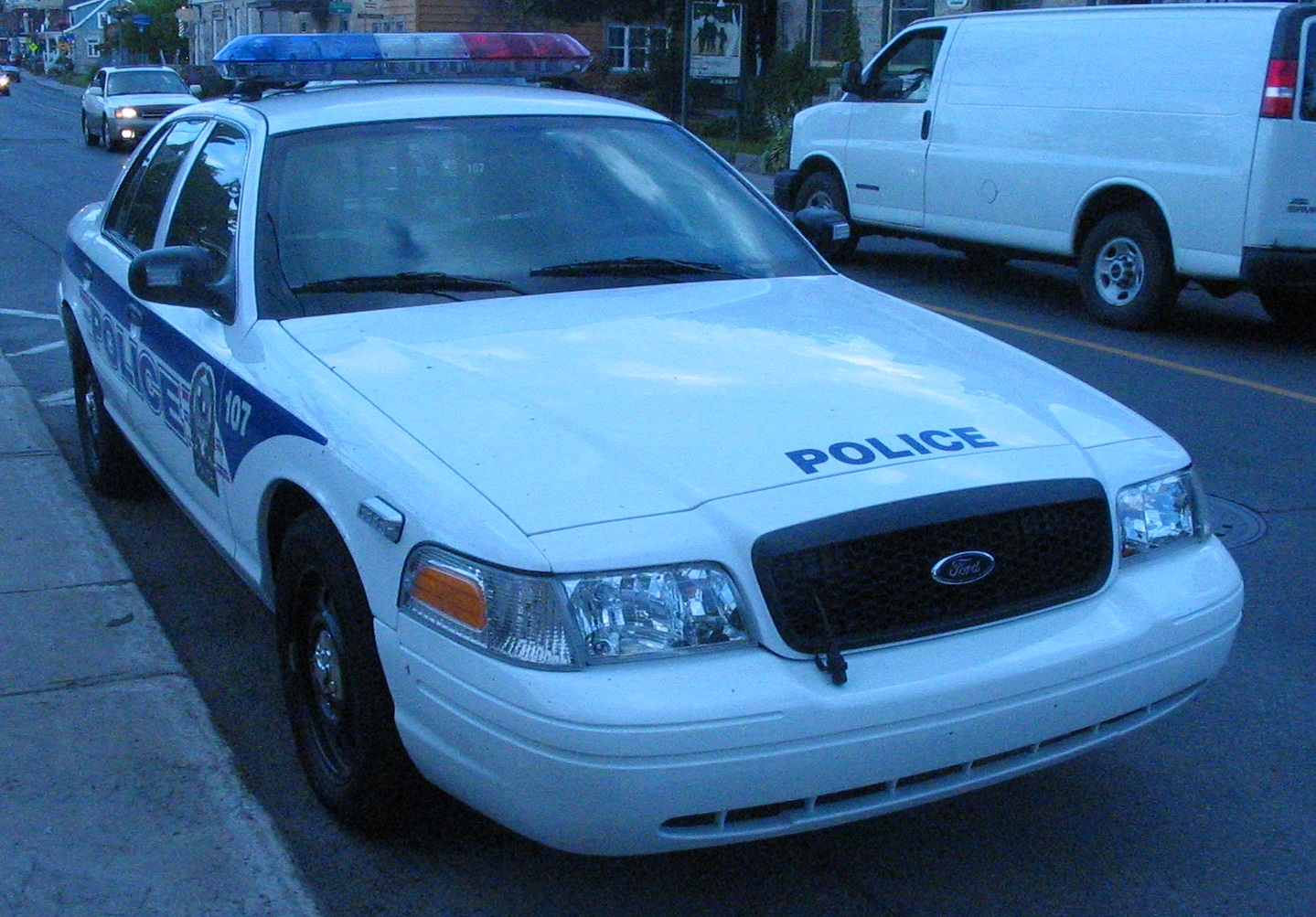 Ford Crown Victoria Laval Police photographed in Laval, Quebec, Canada.